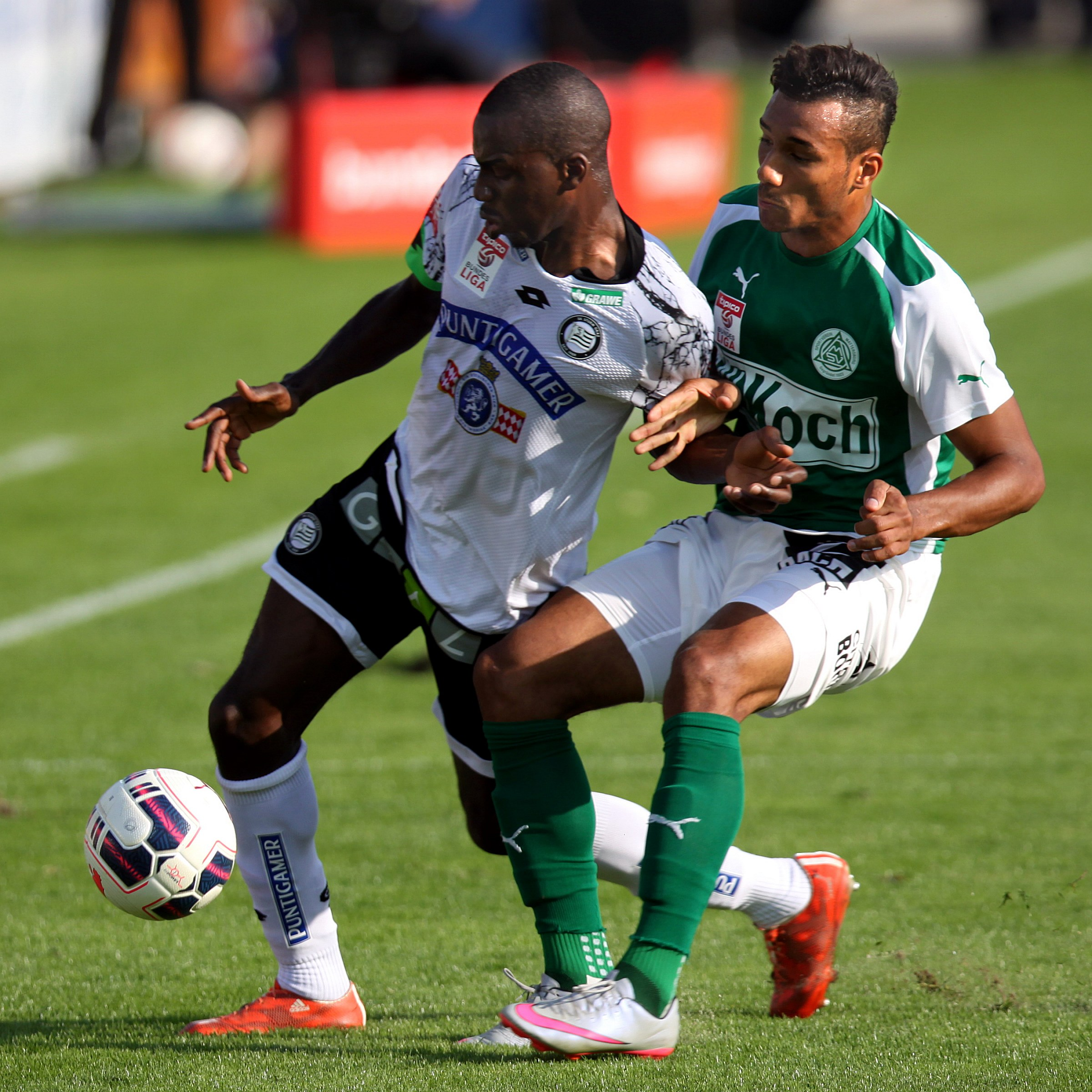 Match of the Austrian Football Bundesliga – SV Mattersburg (green shirts) vs. SK Sturm Graz (white shirts) on 2015-09-13 in Pappelstadion, Mattersburg – The photo shows Wilson Kamavuaka (left) and Karim Onisiwo (right)